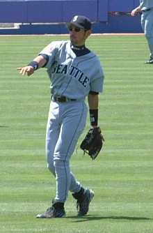 Ichiro Suzuki of Seattle Mariners.